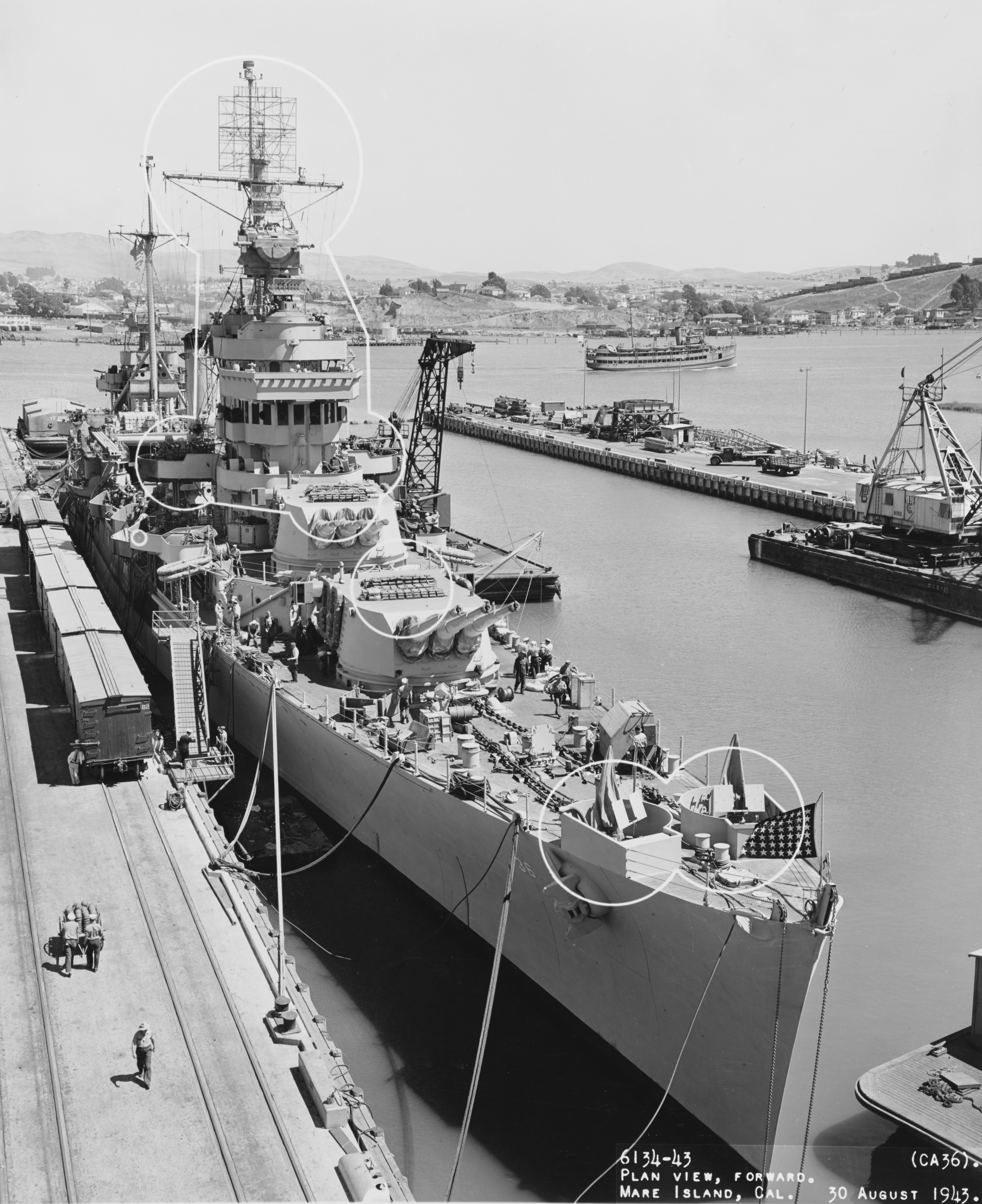 The U.S. Navy heavy cruiser USS Minneapolis (CA-36) at the Mare Island Naval Shipyard, California (USA), on 30 August 1943, upon completion of overhaul and battle damage repairs. Note: SK-1 search radar and gunfire directors mounted atop her foremast and bridge; large false windows painted on her pilothouse, part of a camouflage scheme intended to make her look like a destroyer; sailors pushing a cart full of battle helmets in the lower left; railway boxcars on the pier alongside the ship; lighter YF-280 in the left distance and crane vessel YD-98 at right. Circles mark recent alterations.